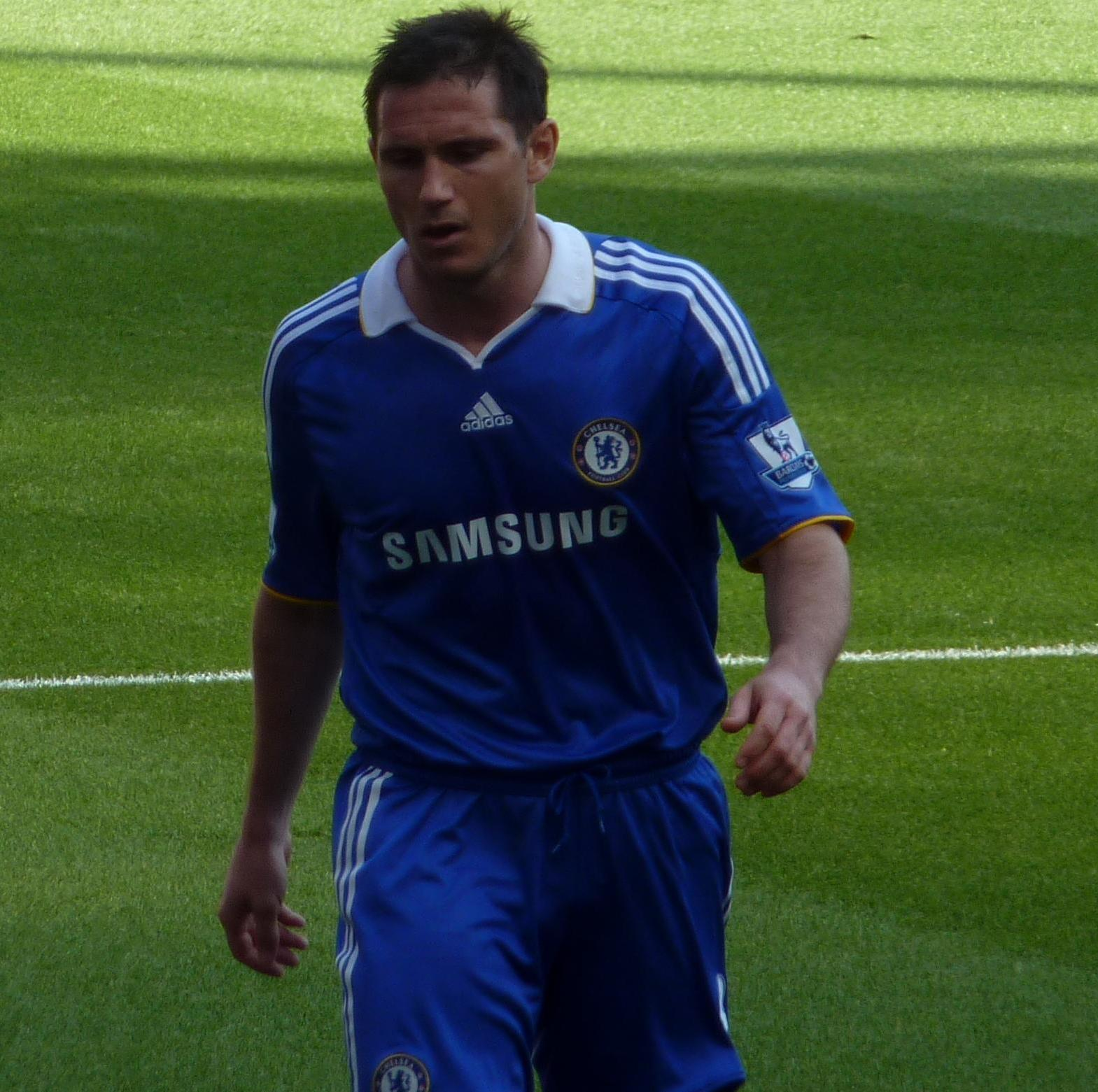 English football player Frank Lampard